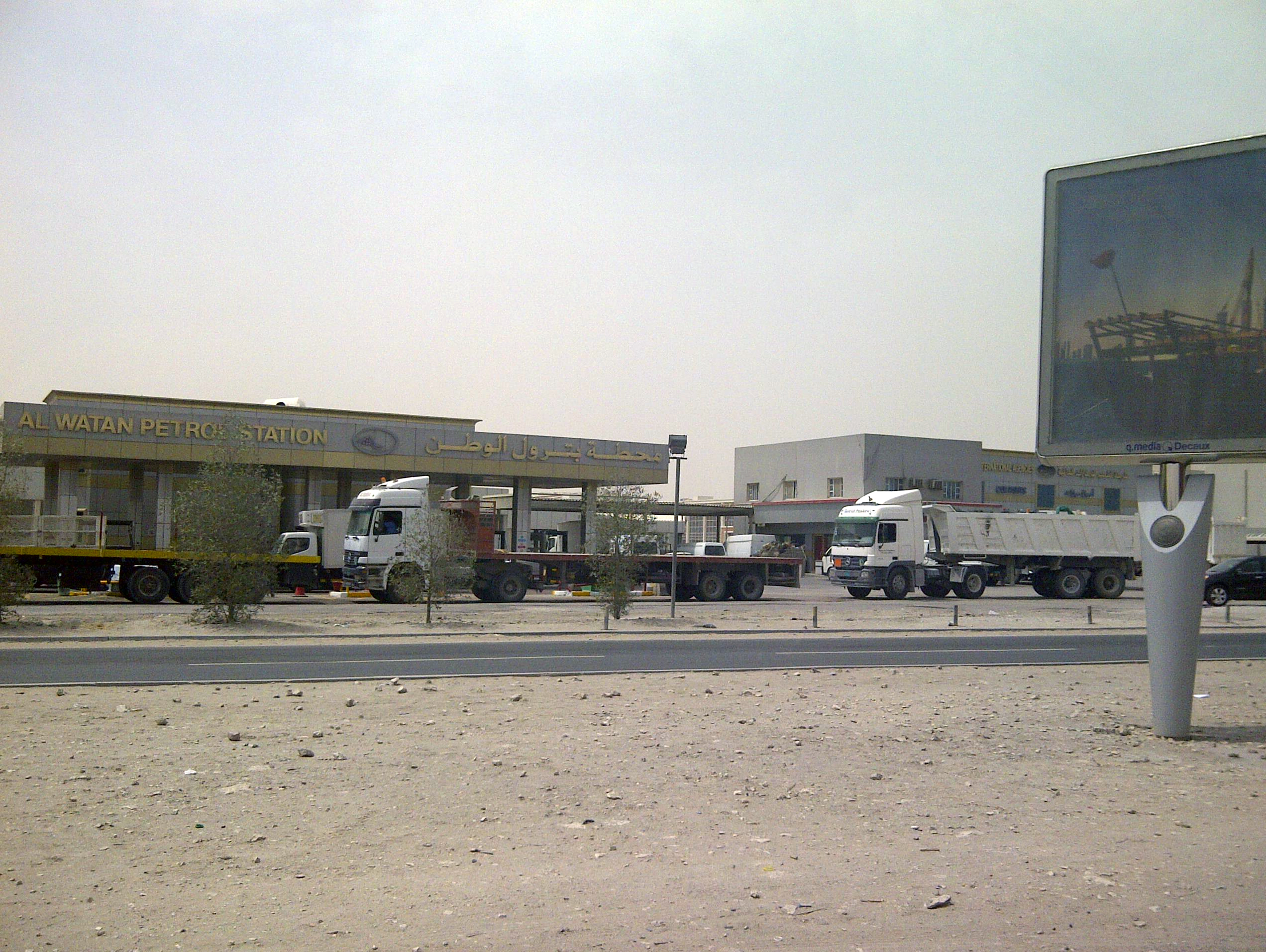 Petrol Station الوطن